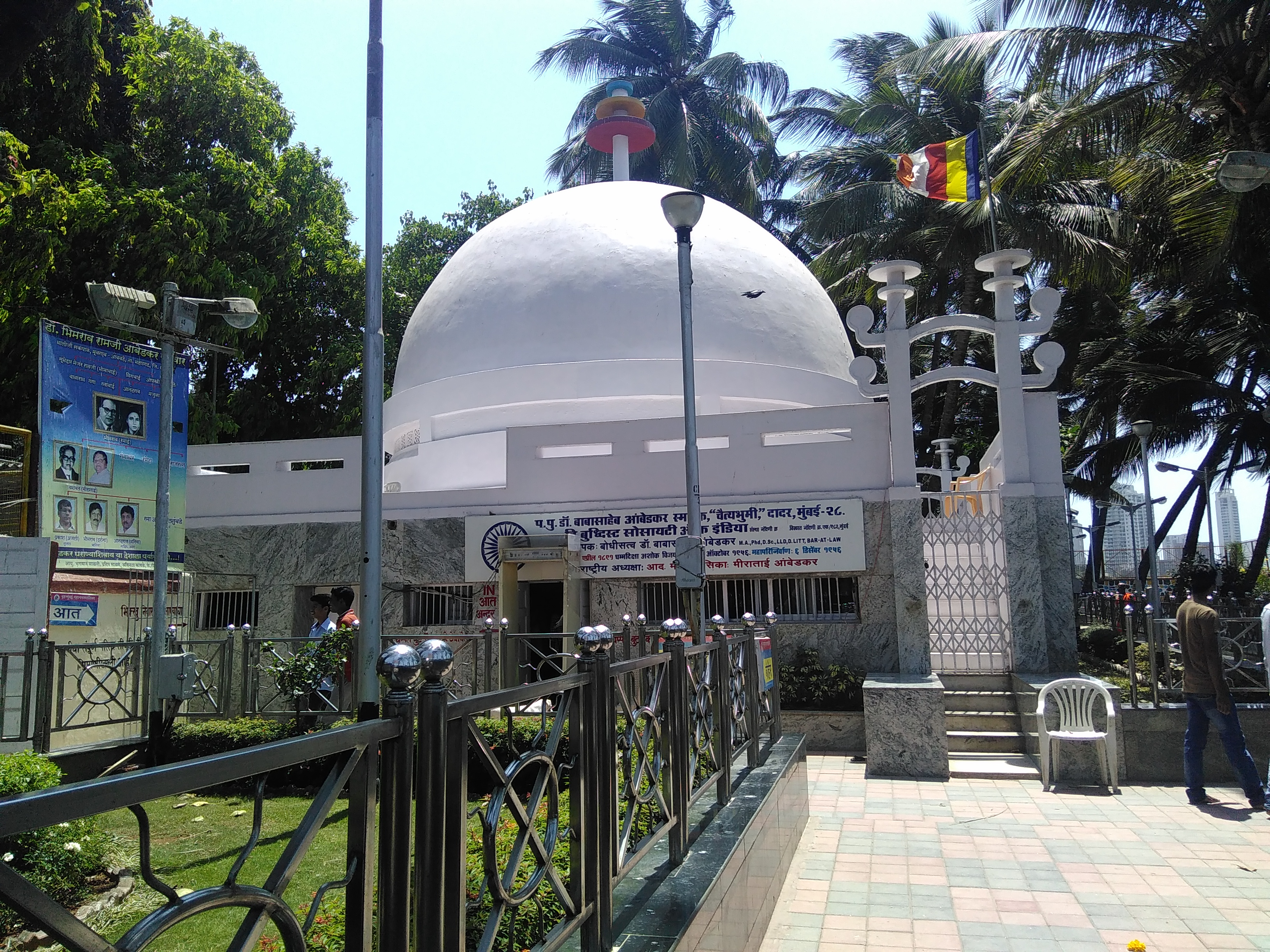 Chaitya Bhoomi is Samadhi place of Dr. Babasaheb Ambedkar. Its also famous stupa of Indian buddhists and Ambedkarists.